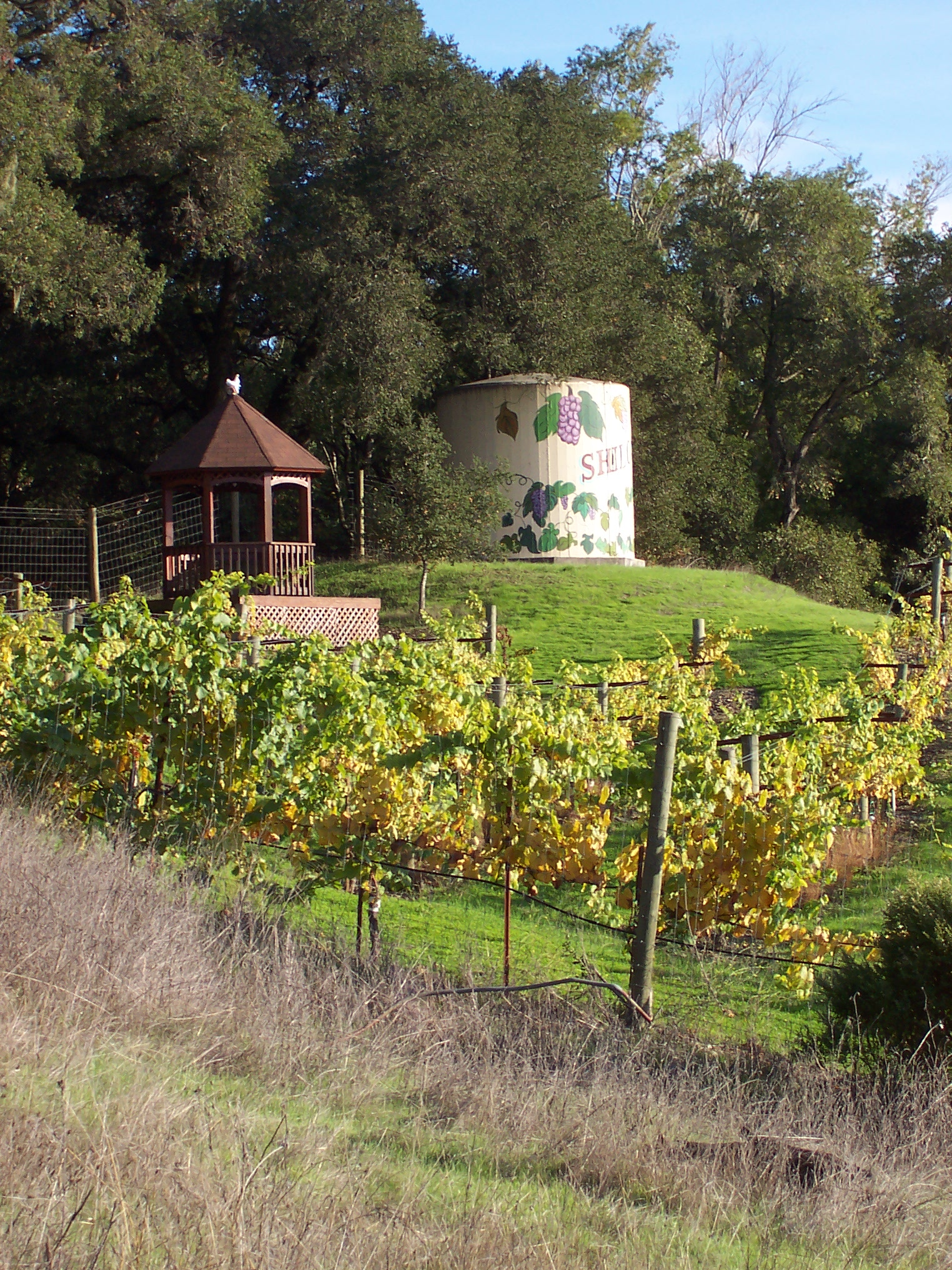 The Shiloh Hill vineyard in the California wine region of Chalk Hill within the Russian River Valley appellation of Sonoma County